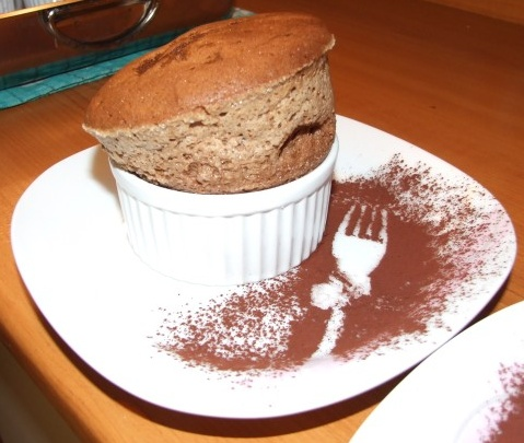 Chocolate soufflé (and mysteriously absent fork)